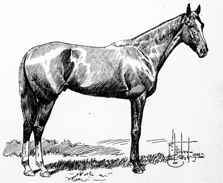 Line drawing of 1901 Kentucky Derby winner, His Eminence.